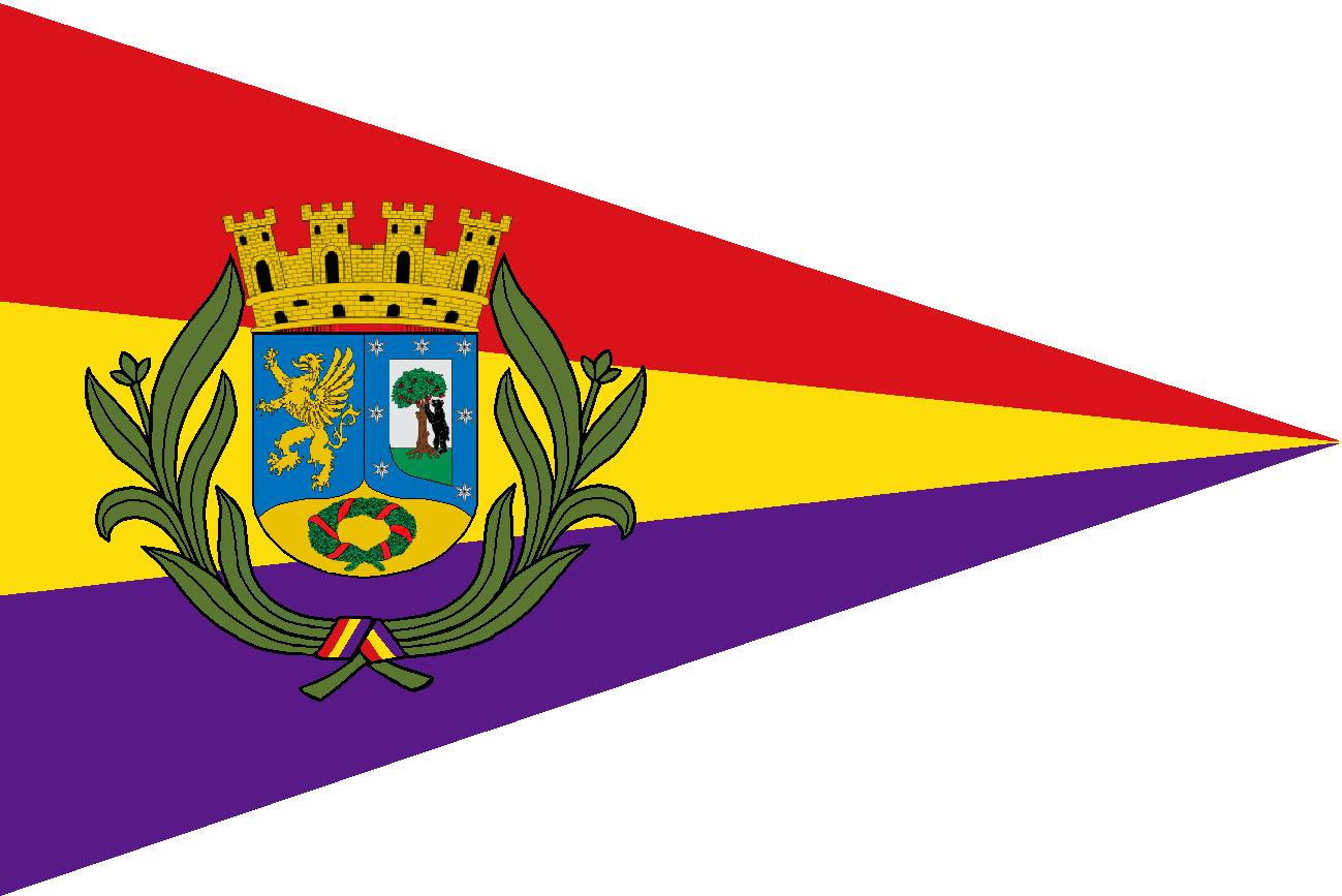 Distintivo de Madrid pennant, established by the Spanish Republic in order to reward courage, by means of the 23 January 1938 Decree. It was related to the Placa Laureada de Madrid awarded to Admiral Luis González de Ubieta after the victorious battle of Cape Palos. This pennant was given to cruisers Libertad and Méndez Núñez, and destroyers Lepanto, Almirante Antequera and Sánchez Barcáiztegui. A special badge was also awarded to their crew members. Enrique García Domingo, Recompensas republicanas por el hundimiento del Baleares, Revista de Historia Naval 1997, Año XV no. 59, pg. 70